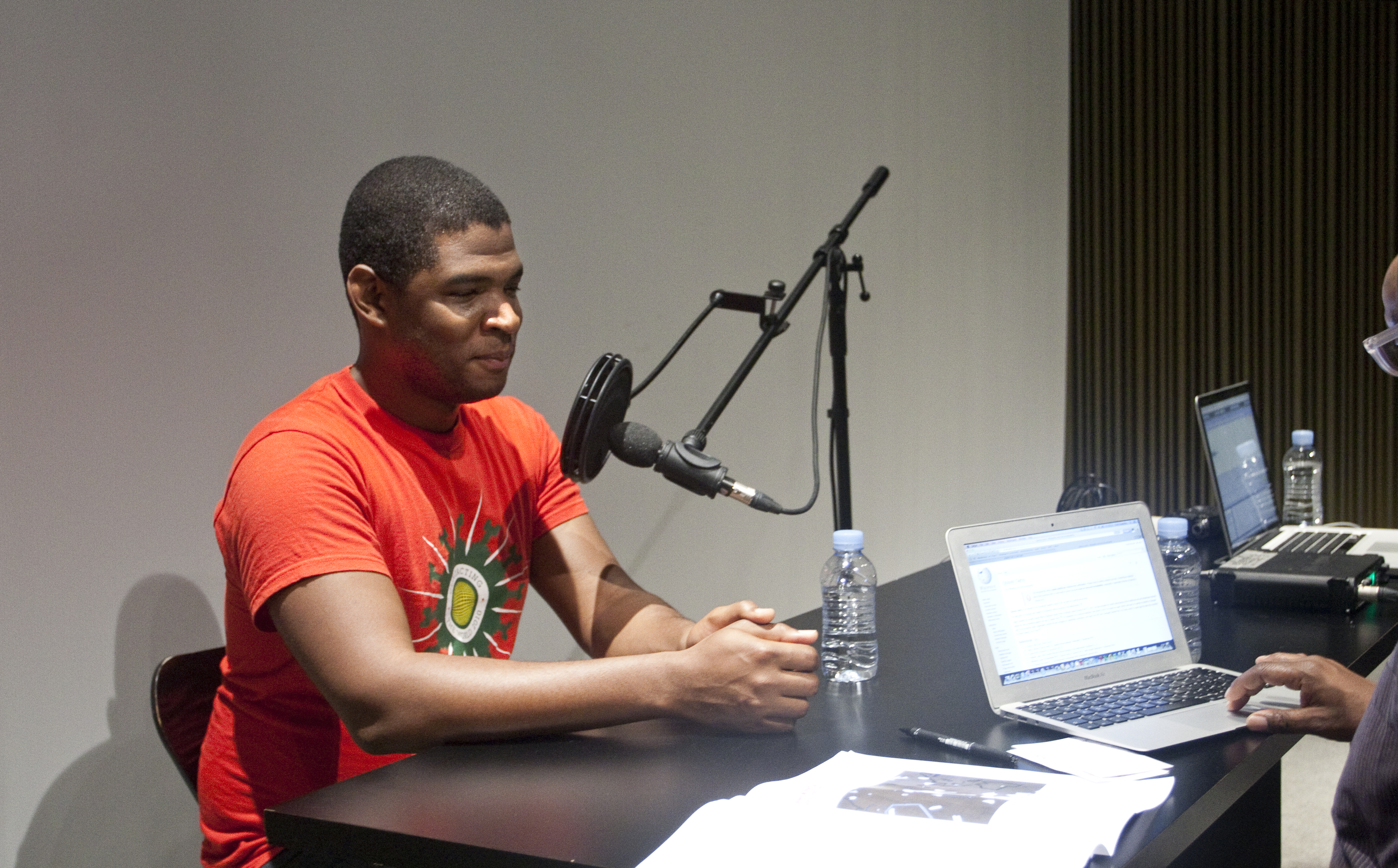 Quinsy Gario while visiting Amb motiu de l’exposició ‘Transfiguracions. Investigació artística i curatorial en una època de migracions’ a l’espai de la Capella, el comissari Paul Goodwin entrevista el performer Quinsy Gario per a un Son[i]a de Ràdio Web MACBA